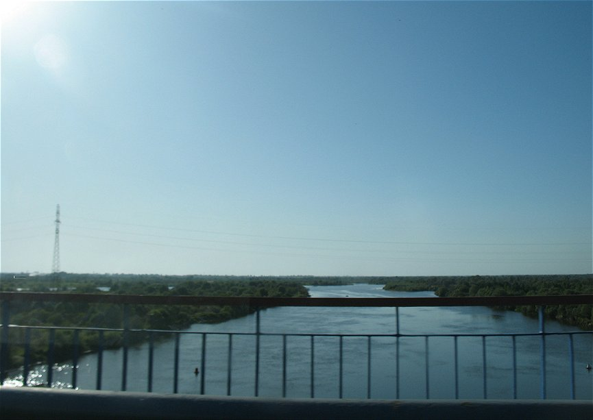 Bridge over the Pripyat River, on road to Turov, Belarus. This bridge is on the regional road P88 in Zhytkavichy, Gomel region. Lateral navigational buoys can be seen in the picture.